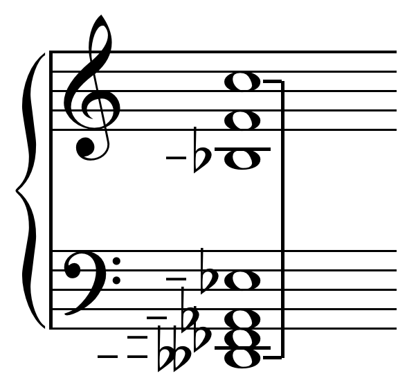 Diaschisma. Created by Hyacinth (talk) using Sibelius 5.